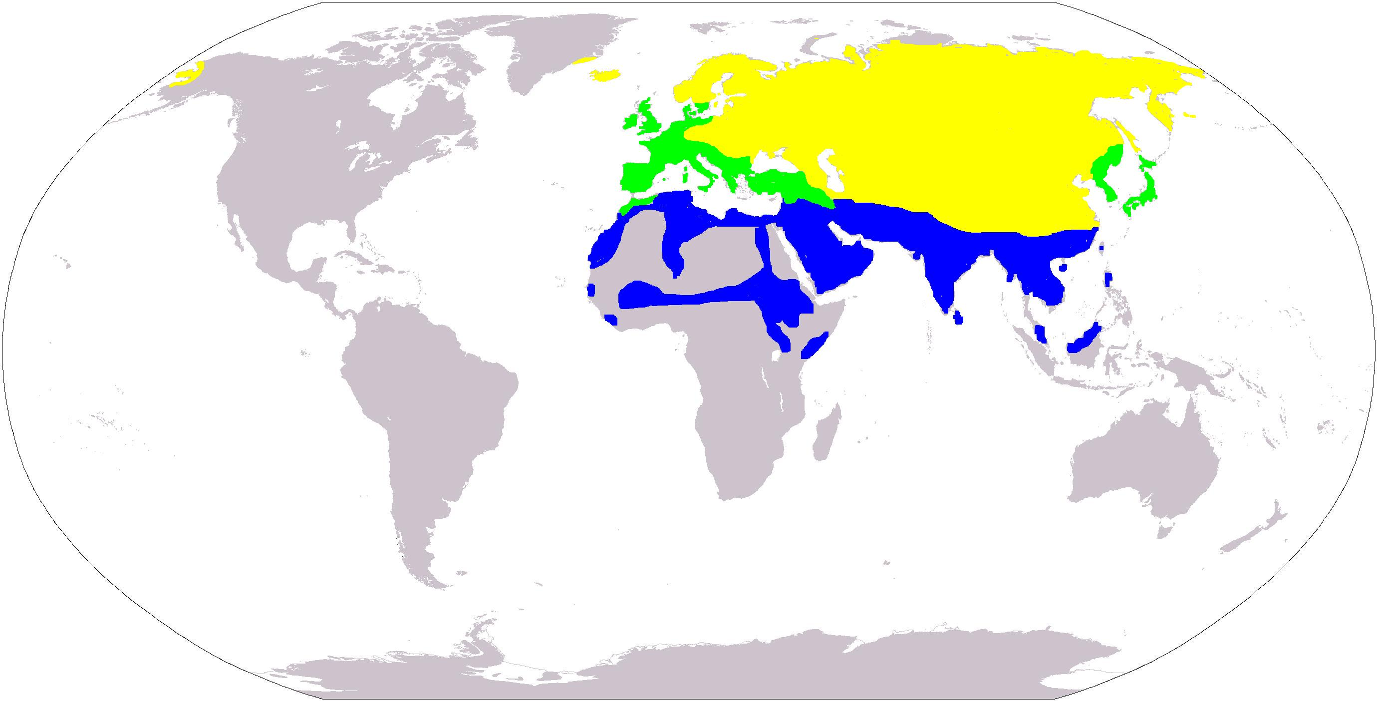 Gloab Distribution of White Wagtail Motacilla alba. Blue denotes nonbreeding range, green year round range, yellow summer range. Based on HBW. Image:LocationWorld (green, small).png.